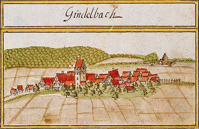 View of Gündelbach, Vaihingen an der Enz, from the forest register books created by Andreas Kieser